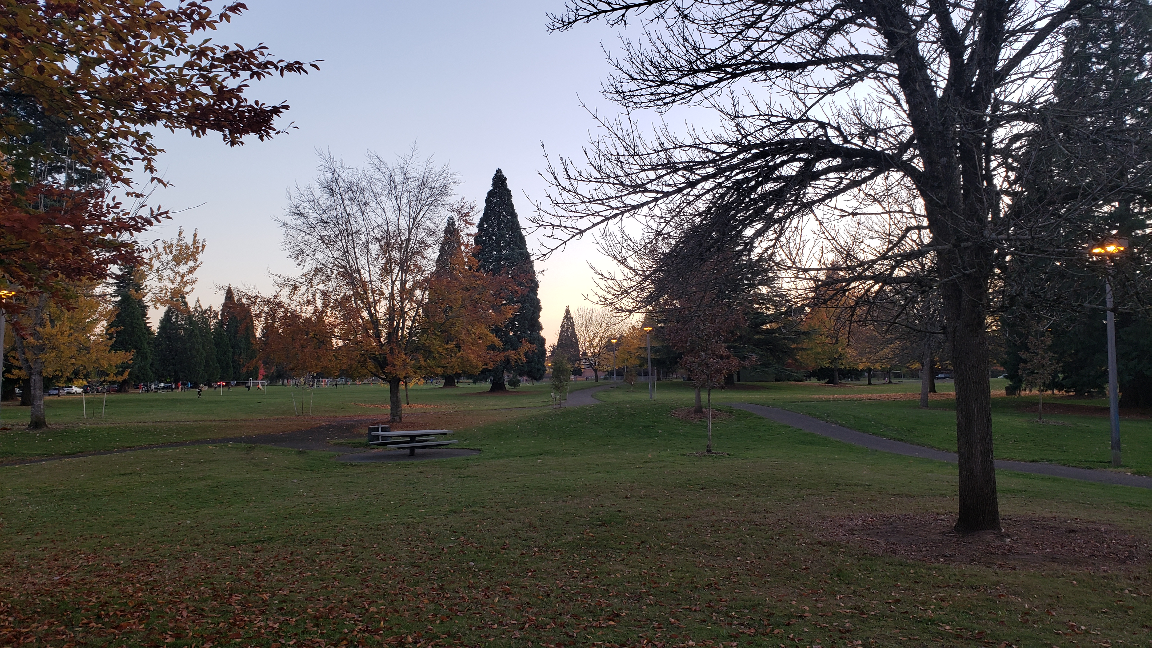 Brentwood Park during the season of fall October 28, 2019